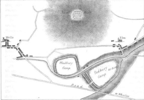 Newbury, Wadbury and Tedbury camps in Somerset, England